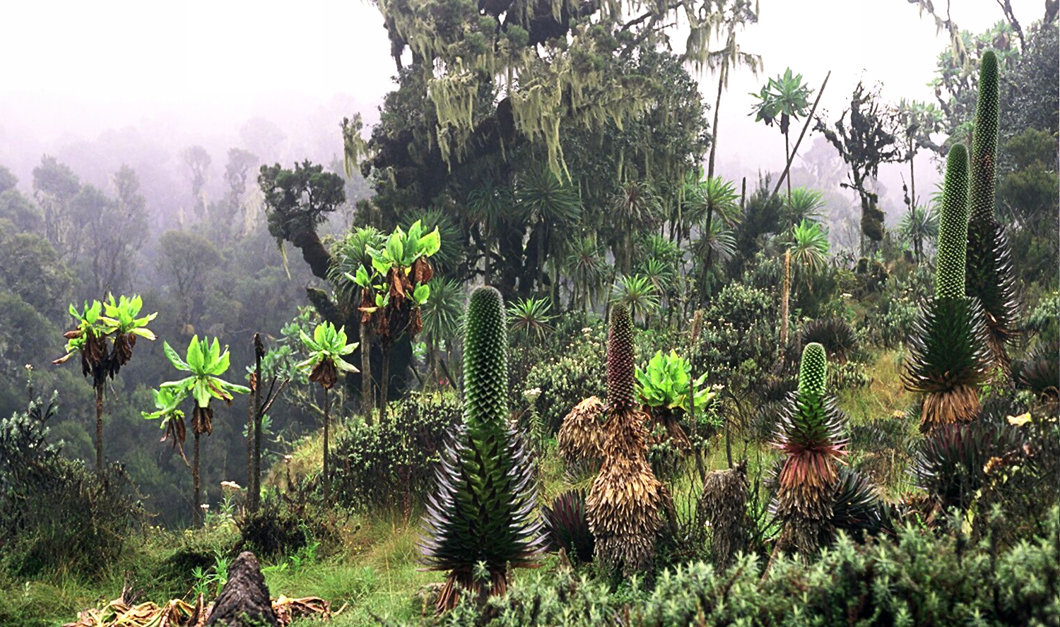 Plants in the Bujuku Valley, Rwenzori Mountains National Park, in the Ruwenzori Mountains at about 3,700 metres (12,100 ft) altitude, SW Uganda. Center rear - a high Erica tree hung with lichen; left side - short "trees" with bright green leaves are Dendrosenecio adnivalis; and also Lobelia in front of straw flowers.